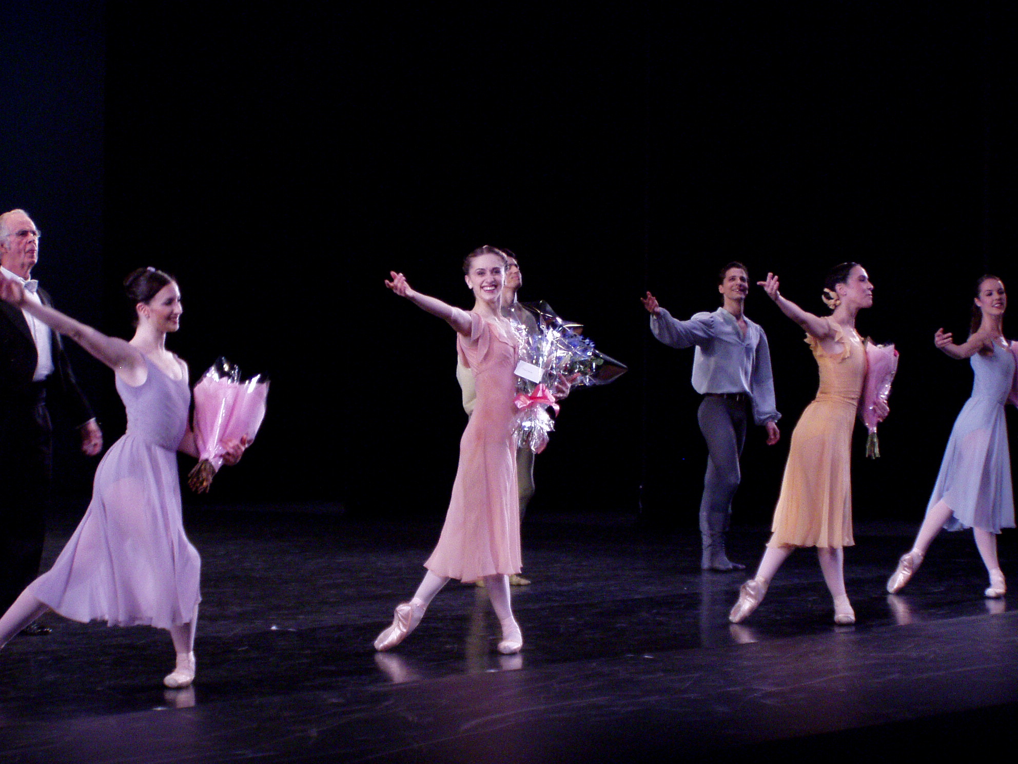 Left to right - Philip Gammon (pianist), Lauren Cuthbertson, Marianela Nuñez, Federico Bonelli, Laura Morera, Johannes Stepanek, Samantha Raine in Dances at a Gathering, Royal Ballet